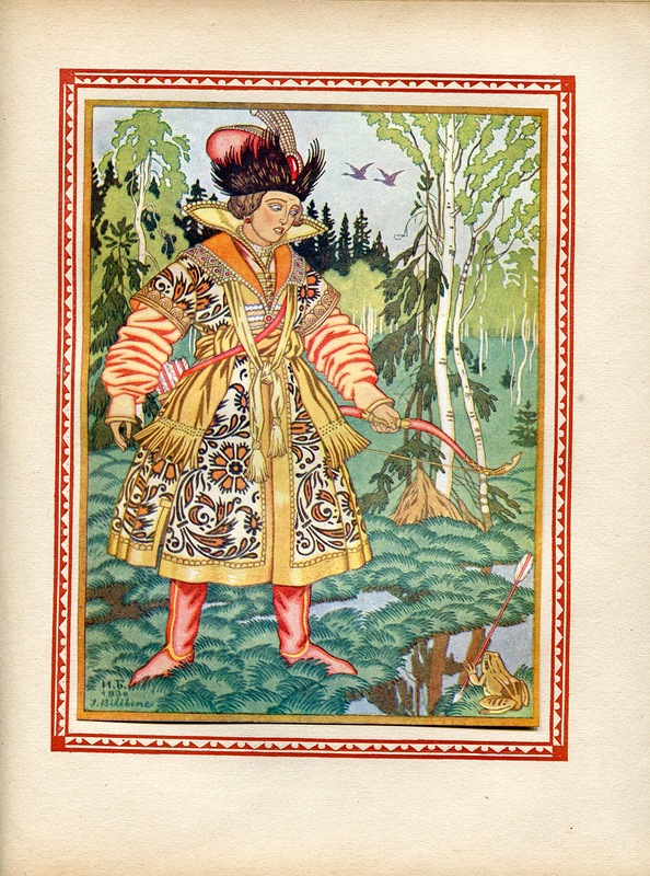 IVAN THE TSAR'S SON AND THE FROG. Illustration to the fairy-tale "The Frog Proncess." 1930